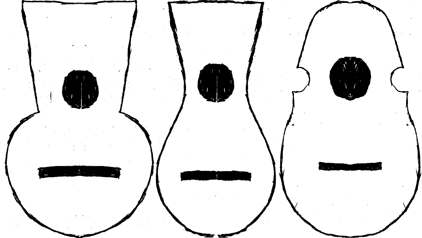 Plan of the body shape of 3 types of Puerto Rican cuatro.